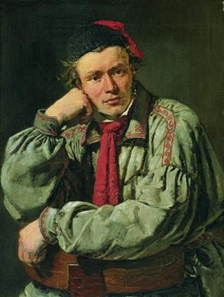 Portrait of the sculptor Hermann Ernst Freund by his friend Christian Albrecht Jensen